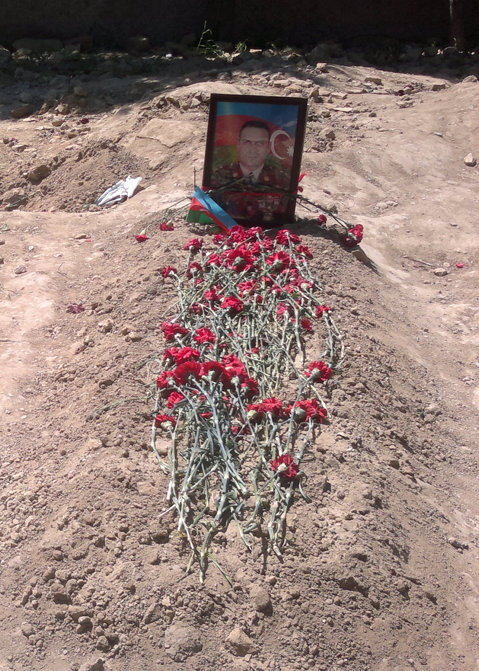 Grave of National Hero of Azerbaijan lieutenant colonel Murad Mirzayev (dead during 2016 Armenian–Azerbaijani clashes) at the II Alley of Honor. Baku, Azerbaijan.